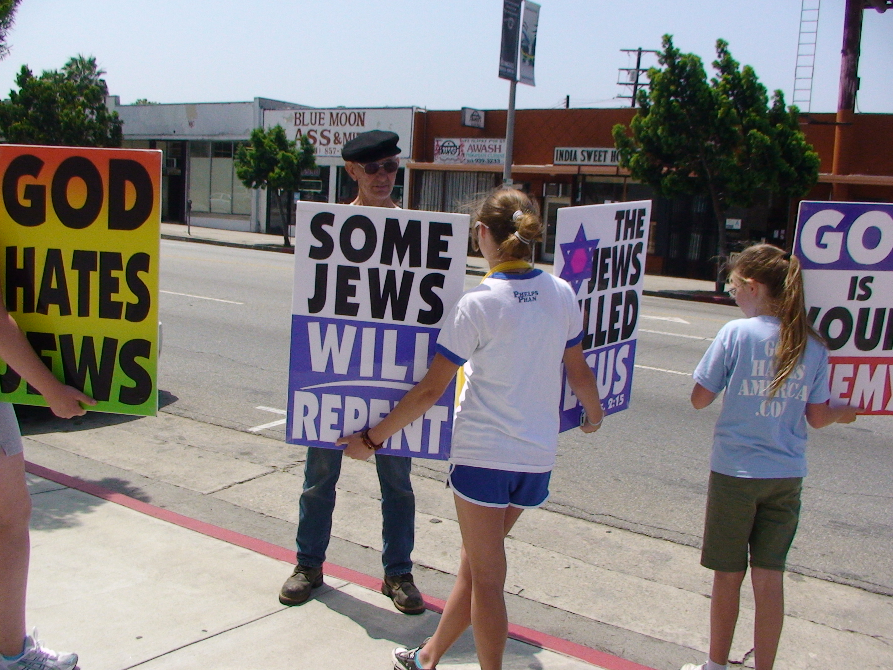 Friday, June 19, 2009 Westboro Baptist Church (Topeka, KS) members picket Beth Chayim Chadashim, a Jewish synagogue in Los Angeles, California and affiliated with Reform Judaism. Founded in 1972 as the world's first Lesbian and Gay synagogue.